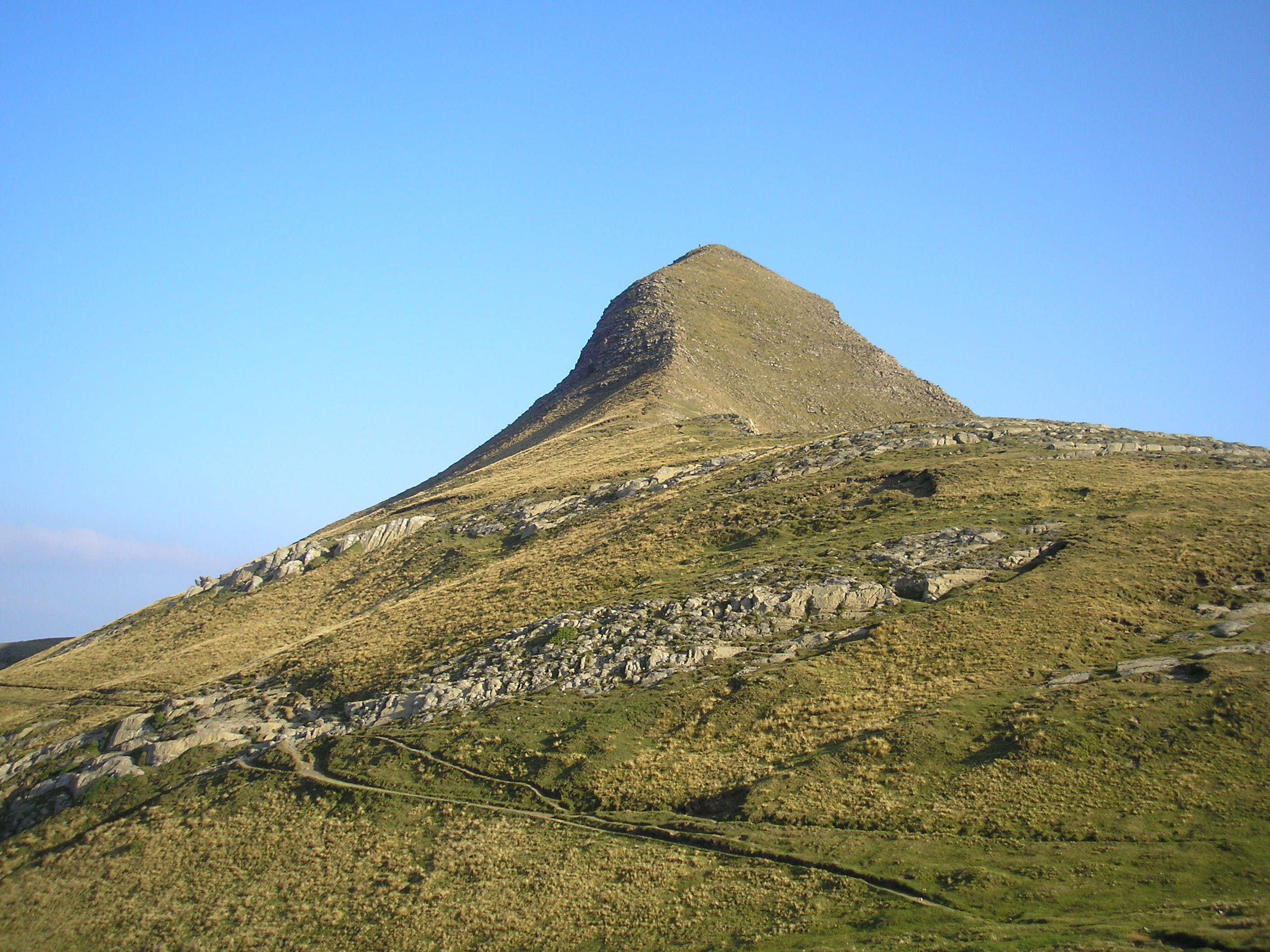 Arlas mountain.